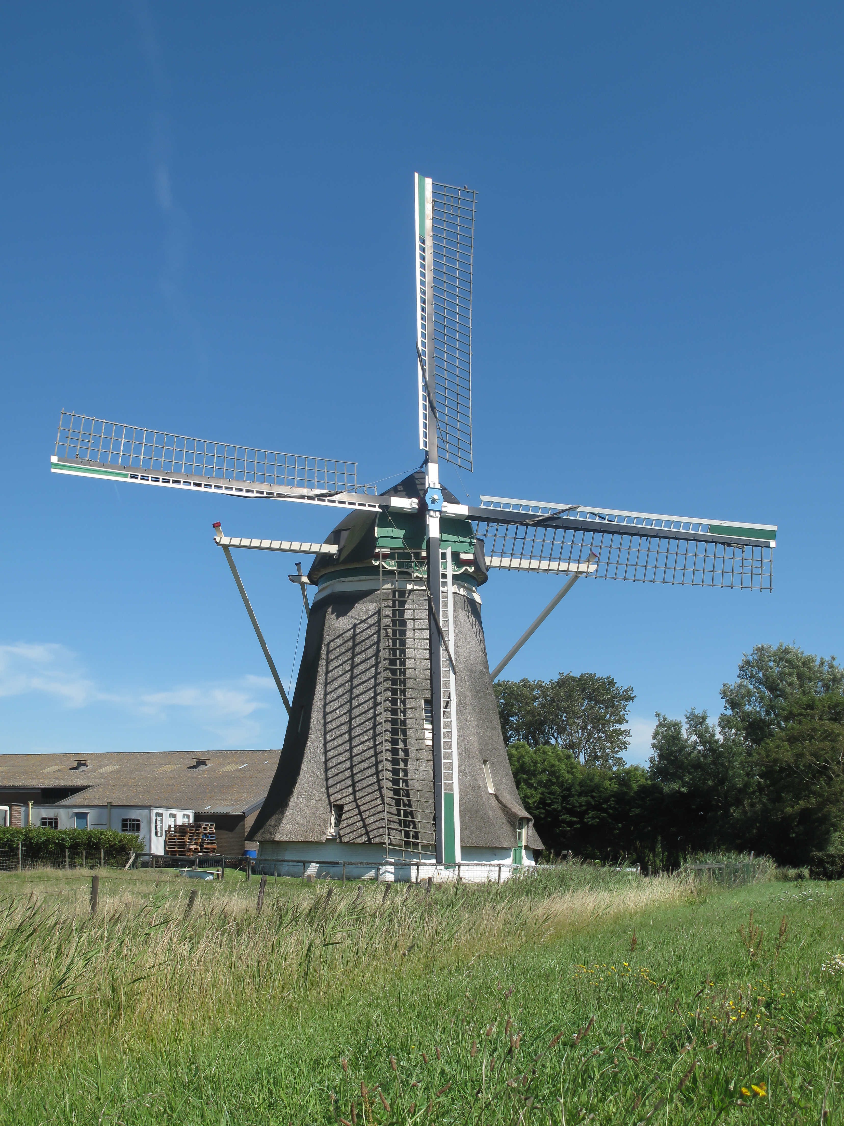 Moriaanshoofd, windmill